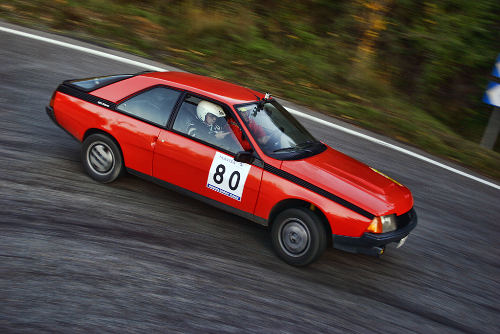 POTARROJOS C.E. JOSÉ A. RÓDENAS MIGUEL GRACIA